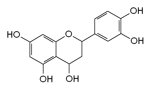 Chemical structure of Luteoforol.